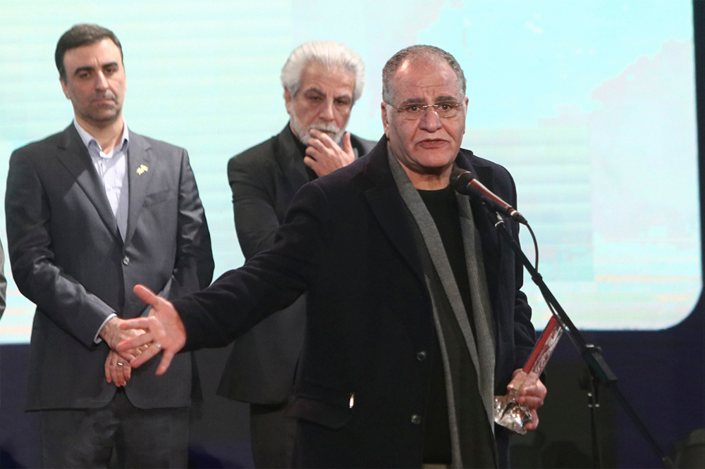 Closing ceremony of the 38th annual Fajr Film Festival at the Milad Tower conference hall on February 11, 2020, in Tehran, Iran